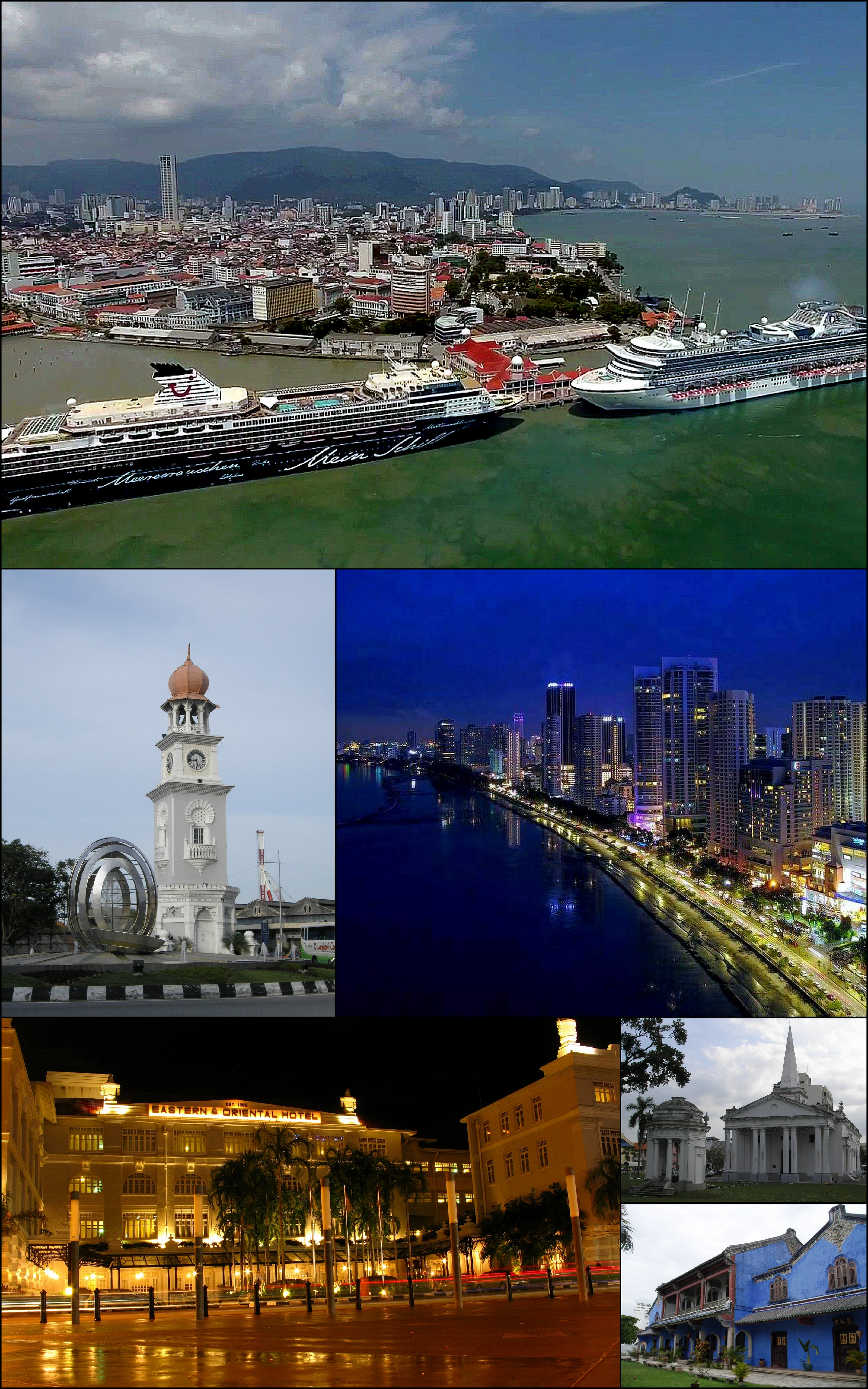 A composite of images taken in the city of George Town in Penang, Malaysia.